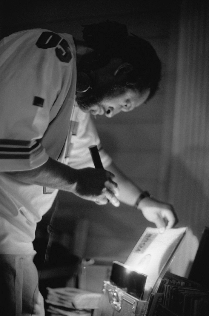 DJ Kool Herc in NYC May 1999